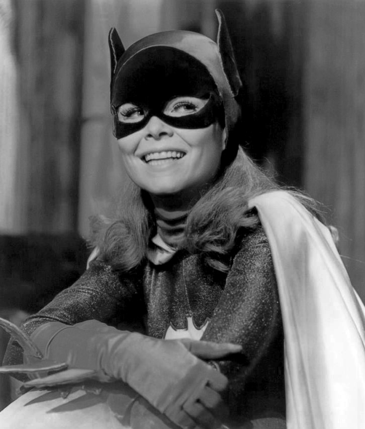 Photo of Yvonne Craig as Batgirl from the television program Batman.